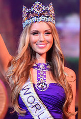 Miss World 2008 Kseniya Sukhinova in Hanoi